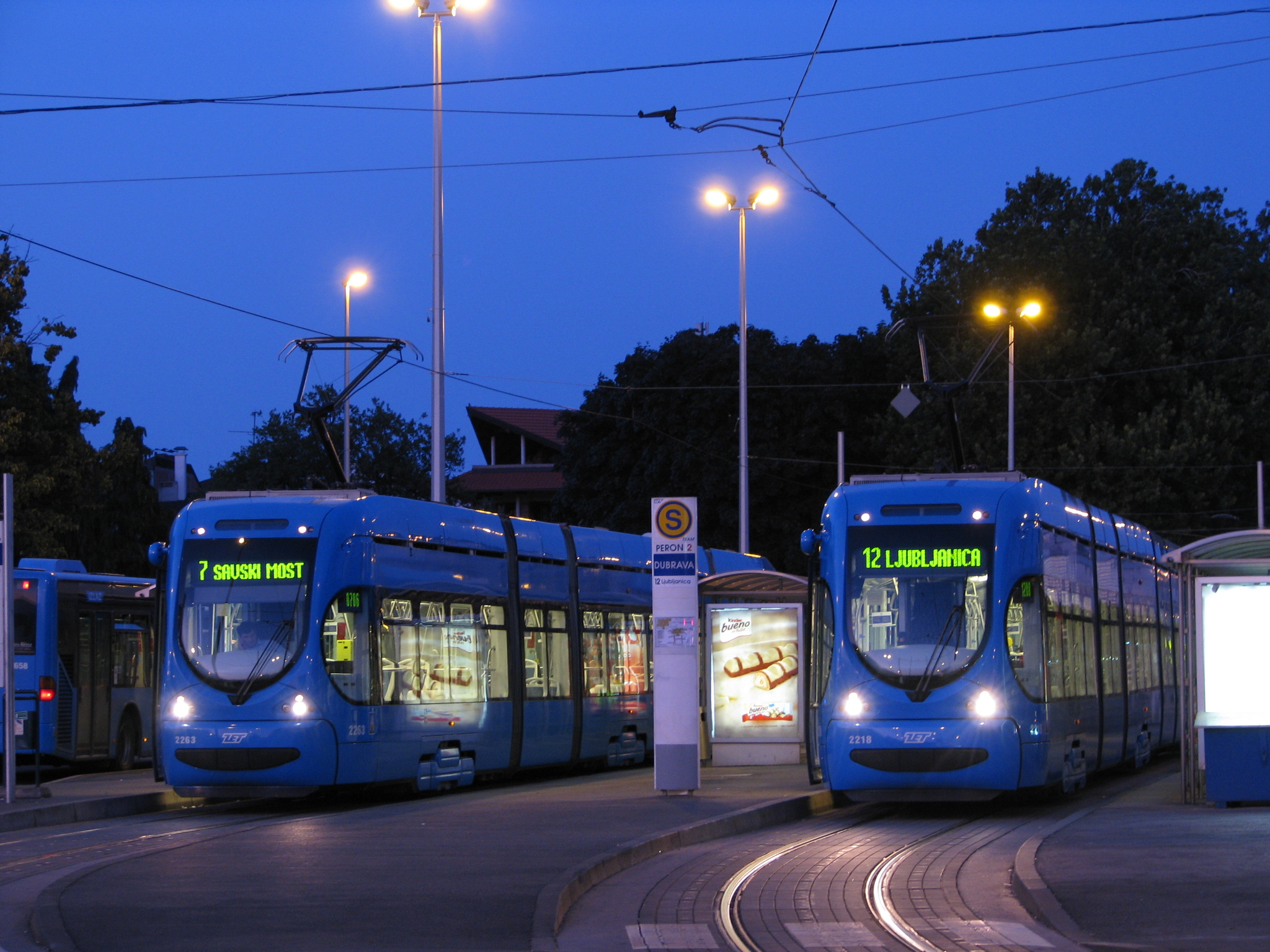 Crotram TMK 2200 trams (# 2263 and #2218, built 2007 and 2006) in Zagreb, Dubrava tram station.